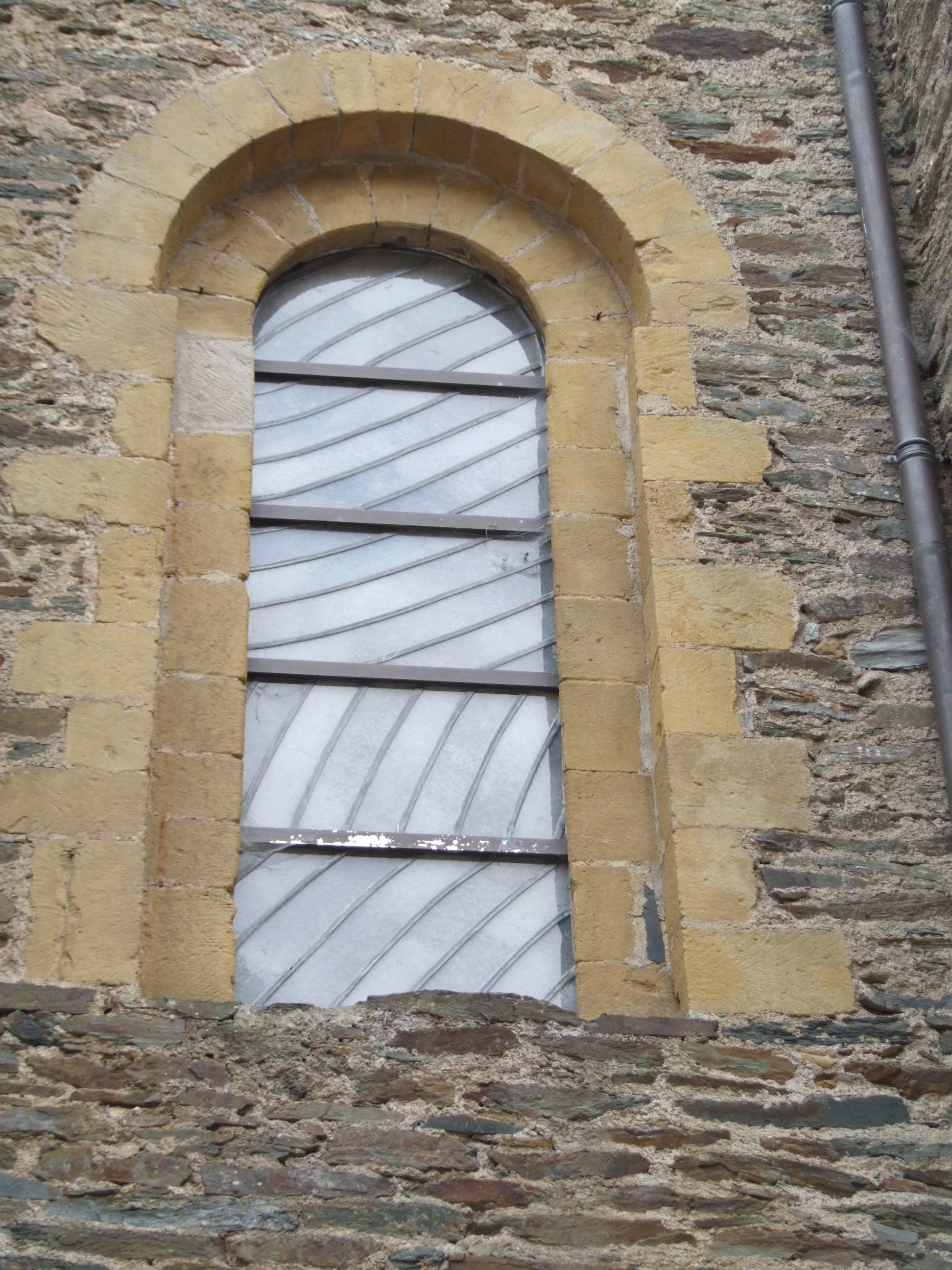 Conques, Aveyron, FRANCE